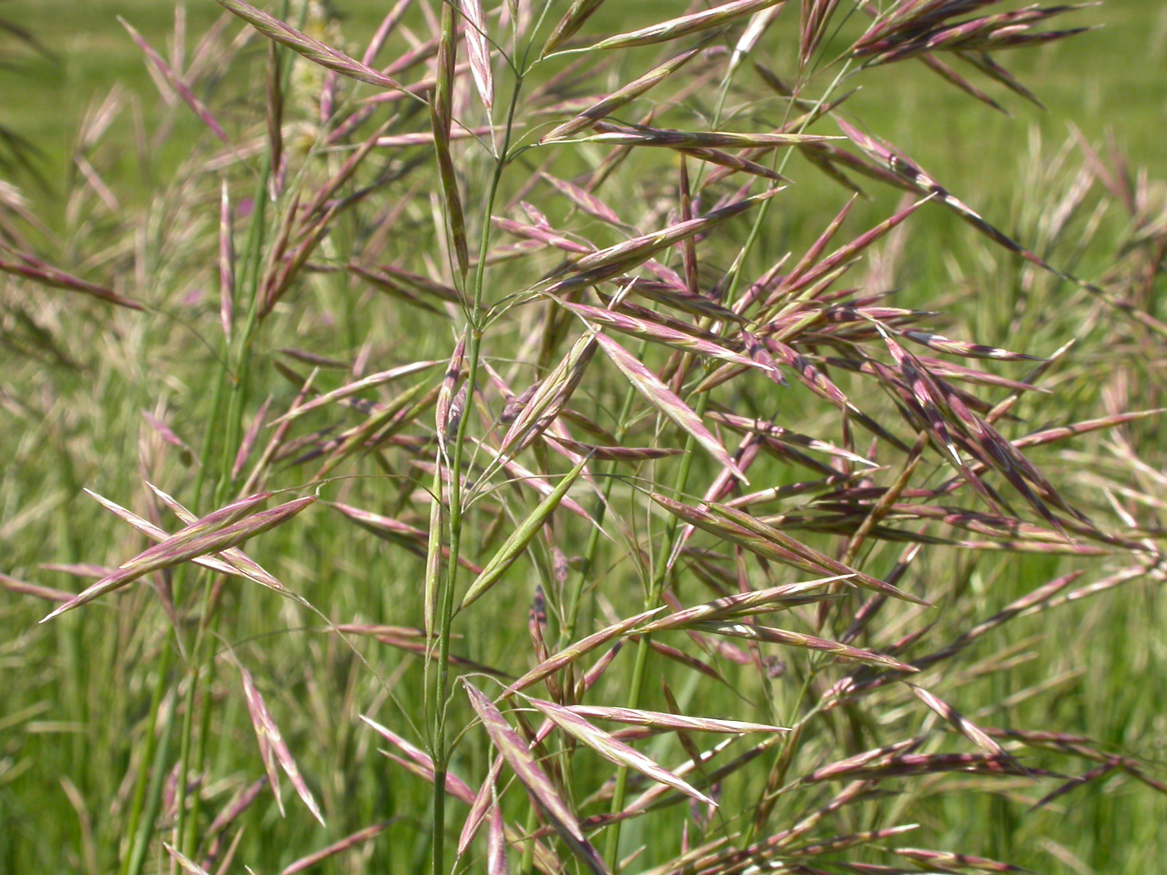 The diffuse panicles tend to remain erect except when fruits develop to the point so as to pull the splikelet into a horizontal position.